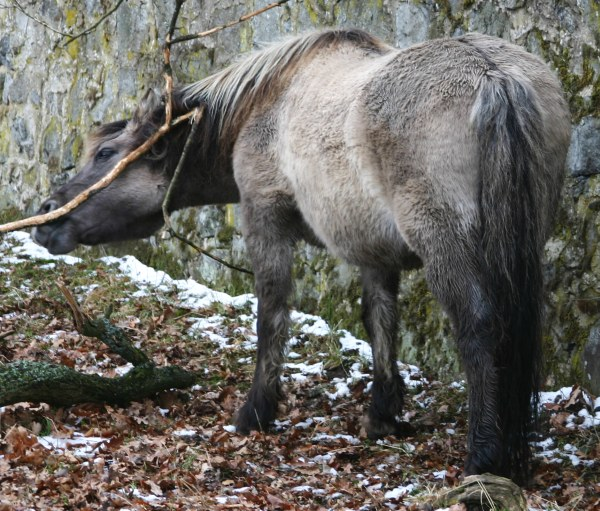 Heck horse.